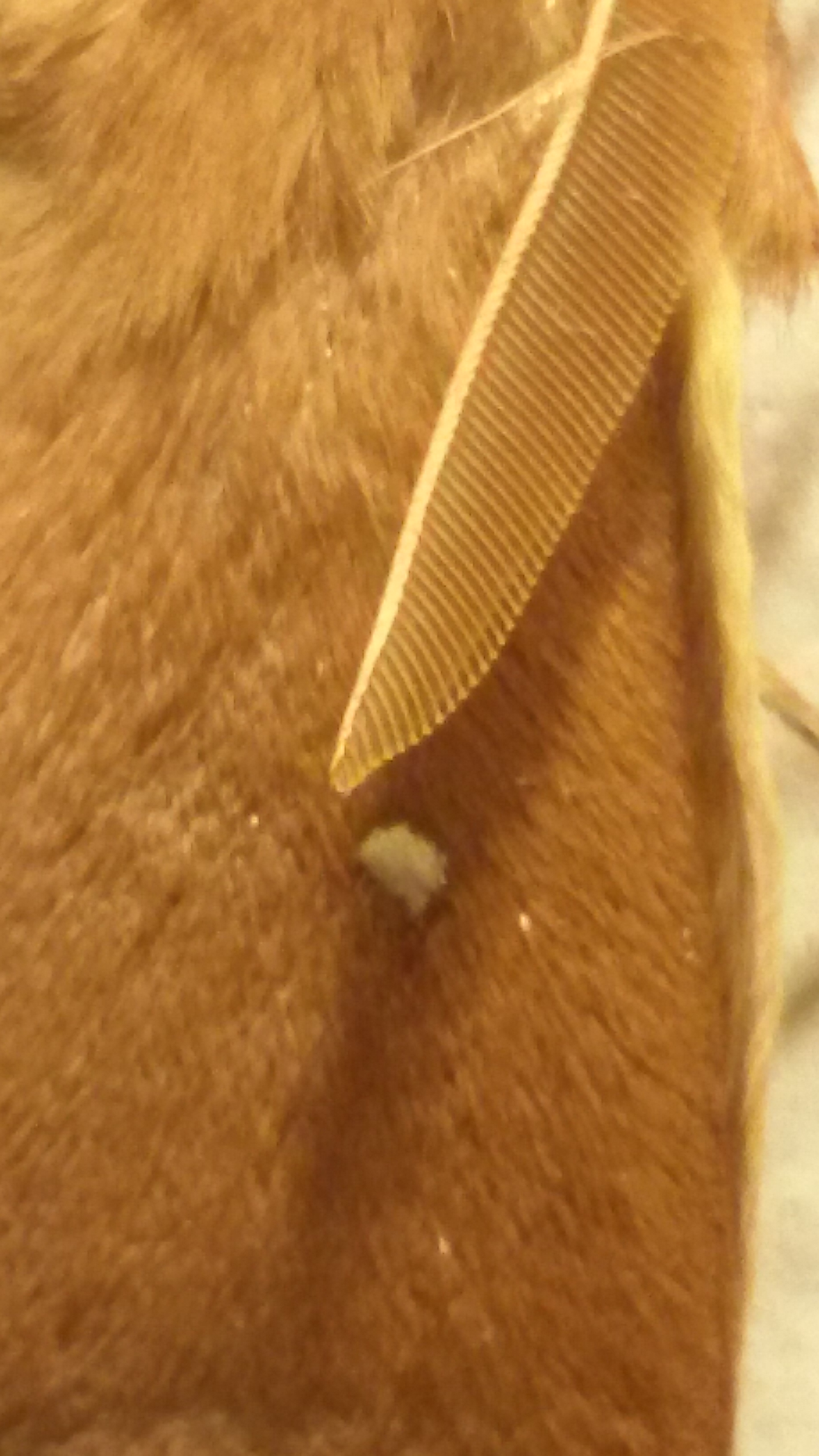 Fragment of male Lasiocampa grandis featuring characteristic white spot